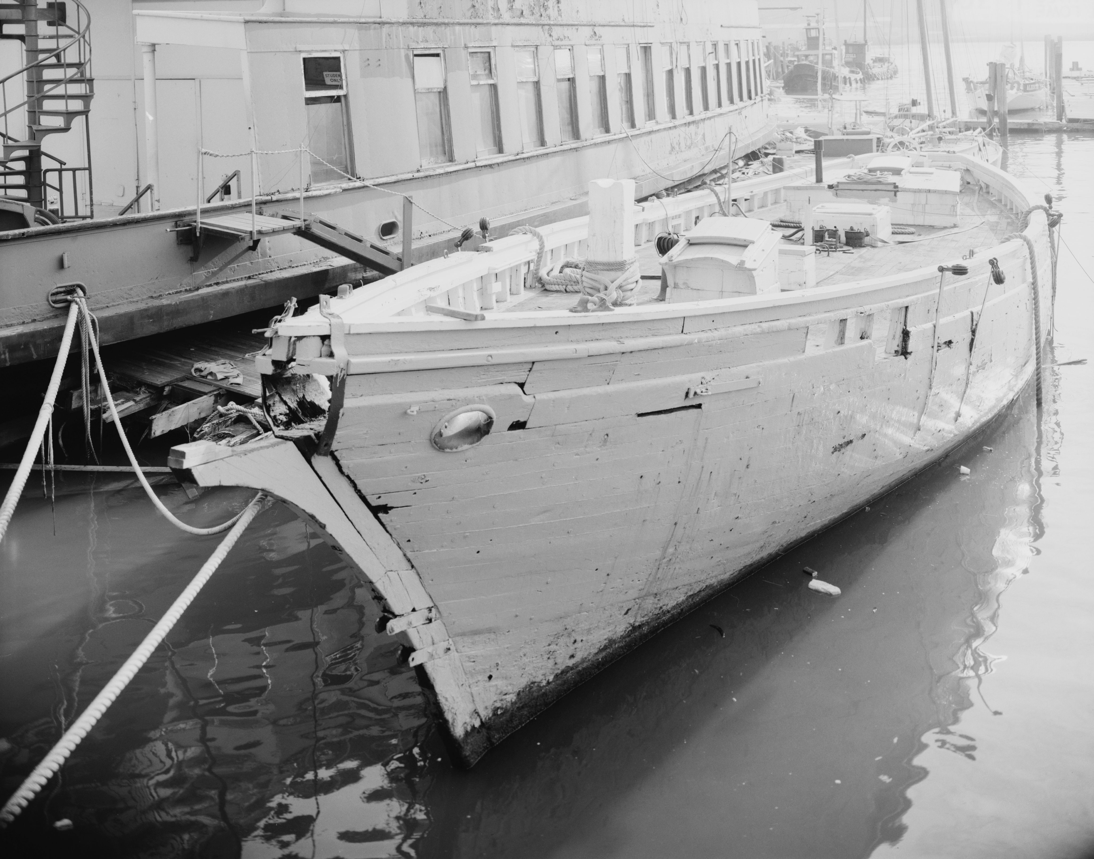 Schooner Lettie G. Howard, South Street Seaport Museum, New York (New York County, New York)(cropped)